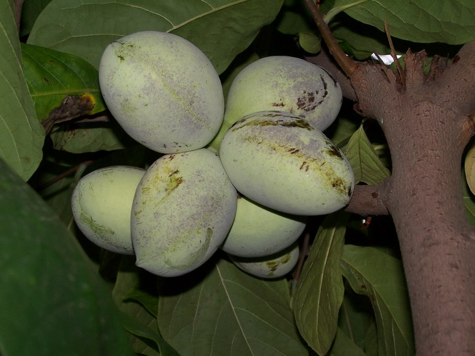 Asimina triloba fruit